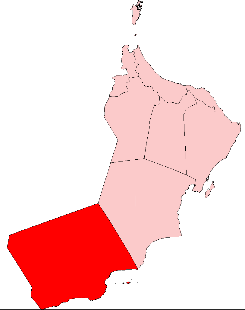 Map of Dhofar governorate, Oman